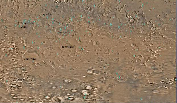 Phaethontis quantangle map with labels. The small, colored rectangles represent image footprints for the narrow angle camera on the Mars Global Surveyor. Some are about 1 mile wide, the others are about 2 miles wide.